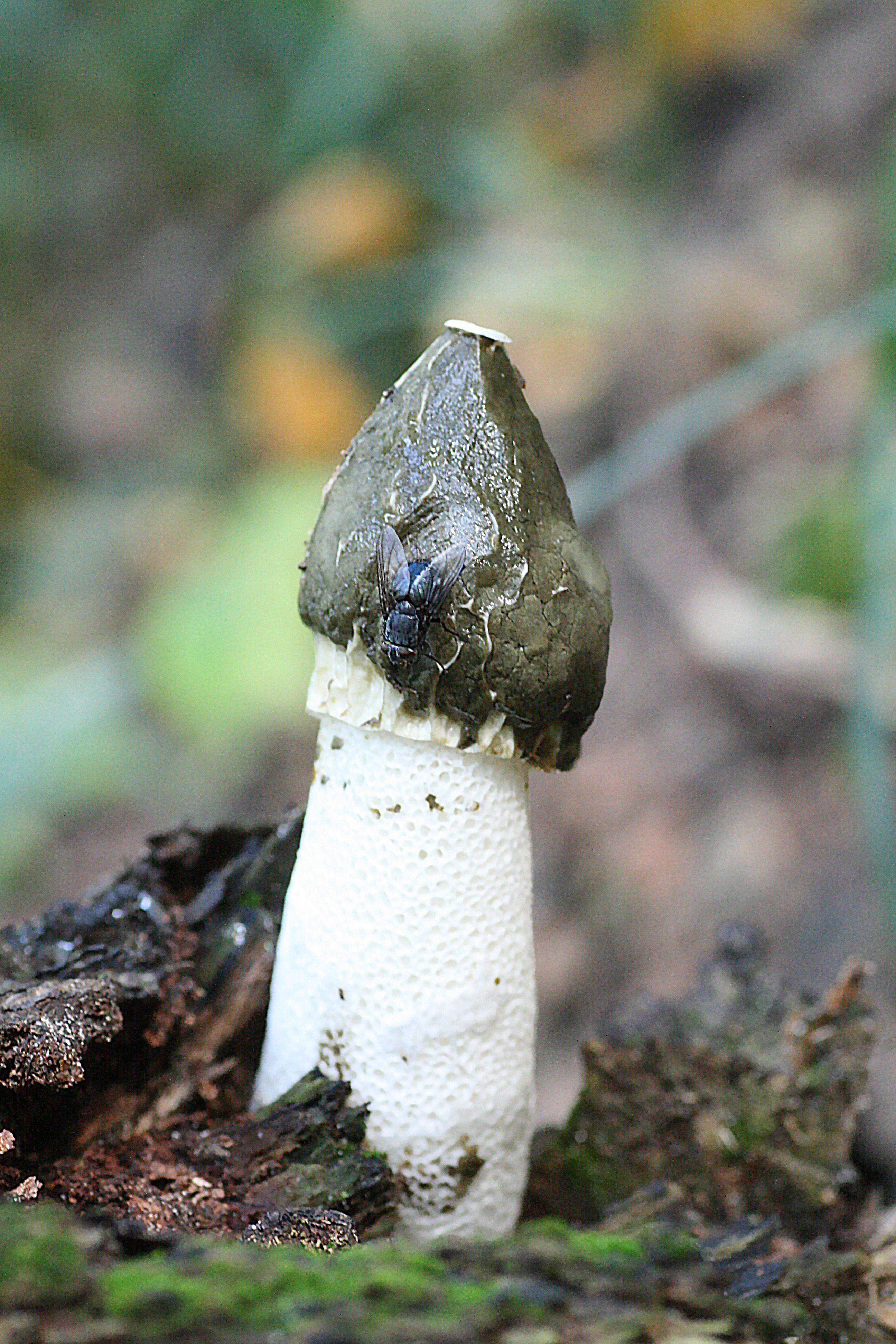 Commonwealth of the common stinkhorn and the blue bottle fly The common stinkhorn (Phallus impudicus) is one of the most peculiar species of fungi whose spores ripen in the outer olive-colored gelatinous gleba of the head and, when spores are becoming mature, the fungus begins to smell carrion on which fly various blowflies (Calliphoridae). This case is regarded as a classic example of a mutually beneficial (symbiotic) tie: mushroom provides flies with liquid food and flies carry the spores of the fungus promoting colonization of new habitats. However, the documentary (photographic) proof is difficult to obtain because the common stinkhorn usually grows in shady poorly lightened parts of the forest, the use of additional light sources is difficult because it deters flies from the mushroom -the main subject. In the photograph, that was done in the year 2012 in the aspen of the Voronezhsky Reserve in poor light and without flash, is clearly visible in the common stinkhorn the blue bottle fly (Calliphora vicina) which is one of the main agents of the spread of the common stinkhorn in forest ecosystems of the Voronezhsky Reserve.